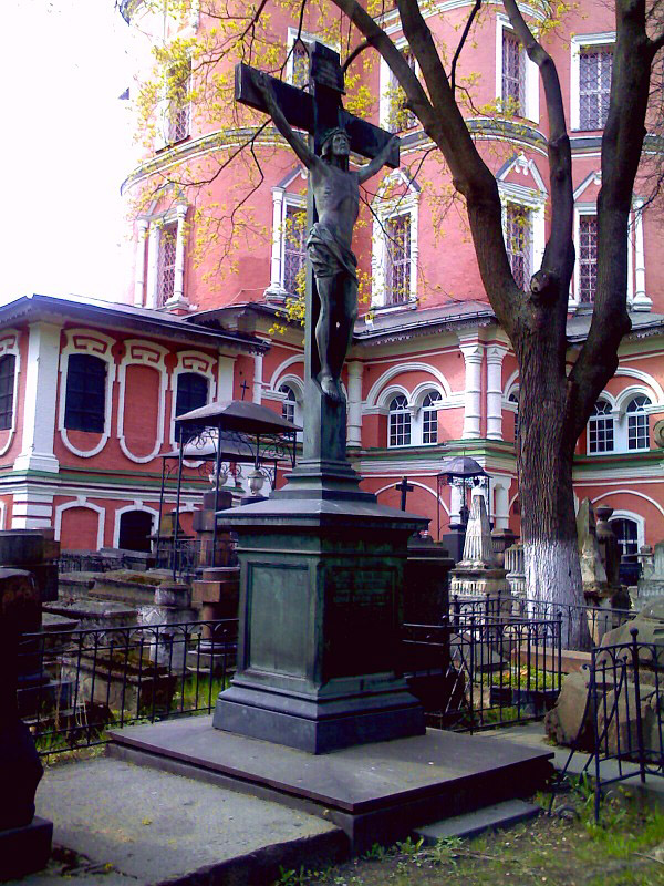 Donskoy monastery in Moscow